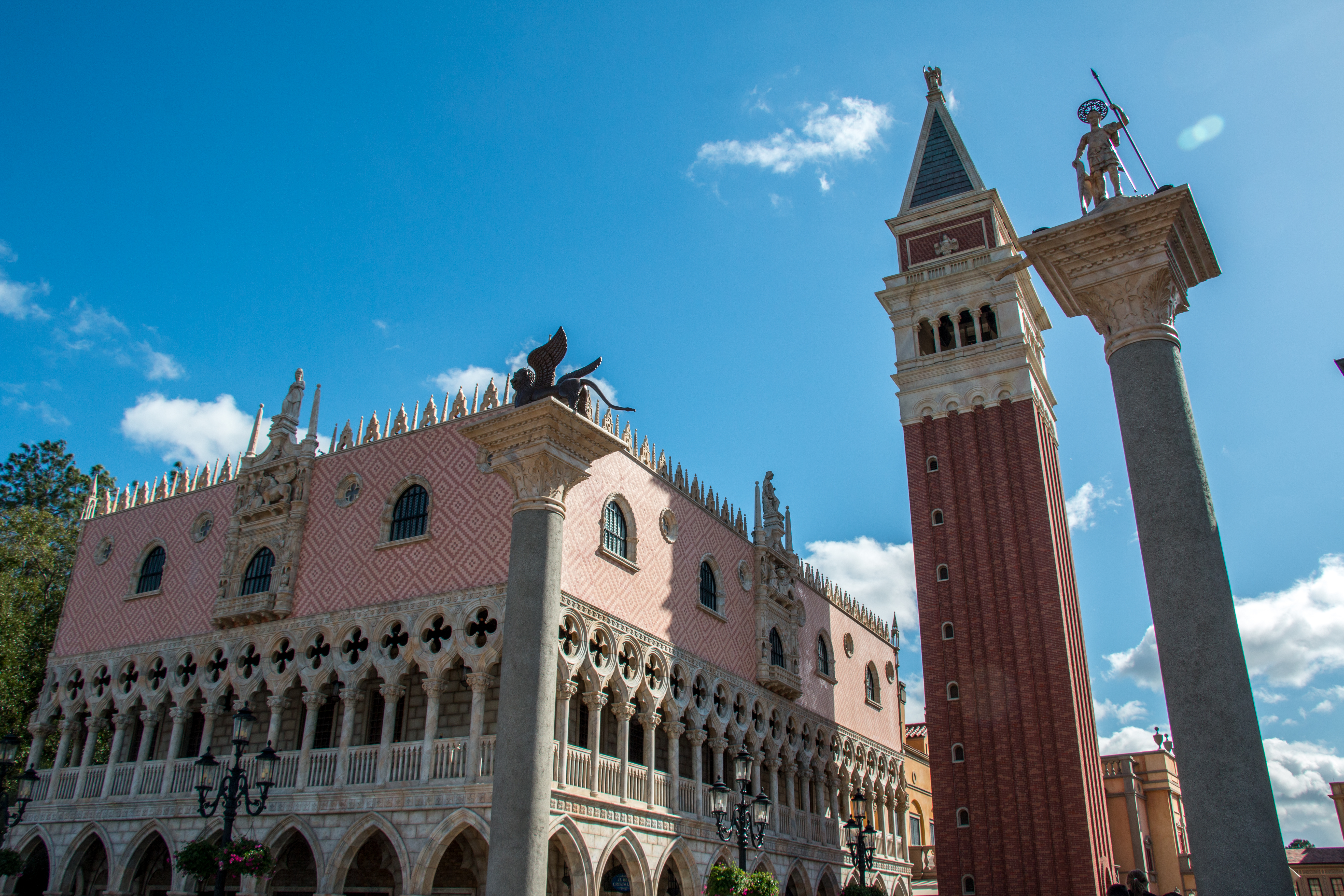 At the Italy Pavilion in World Showcase at Epcot.